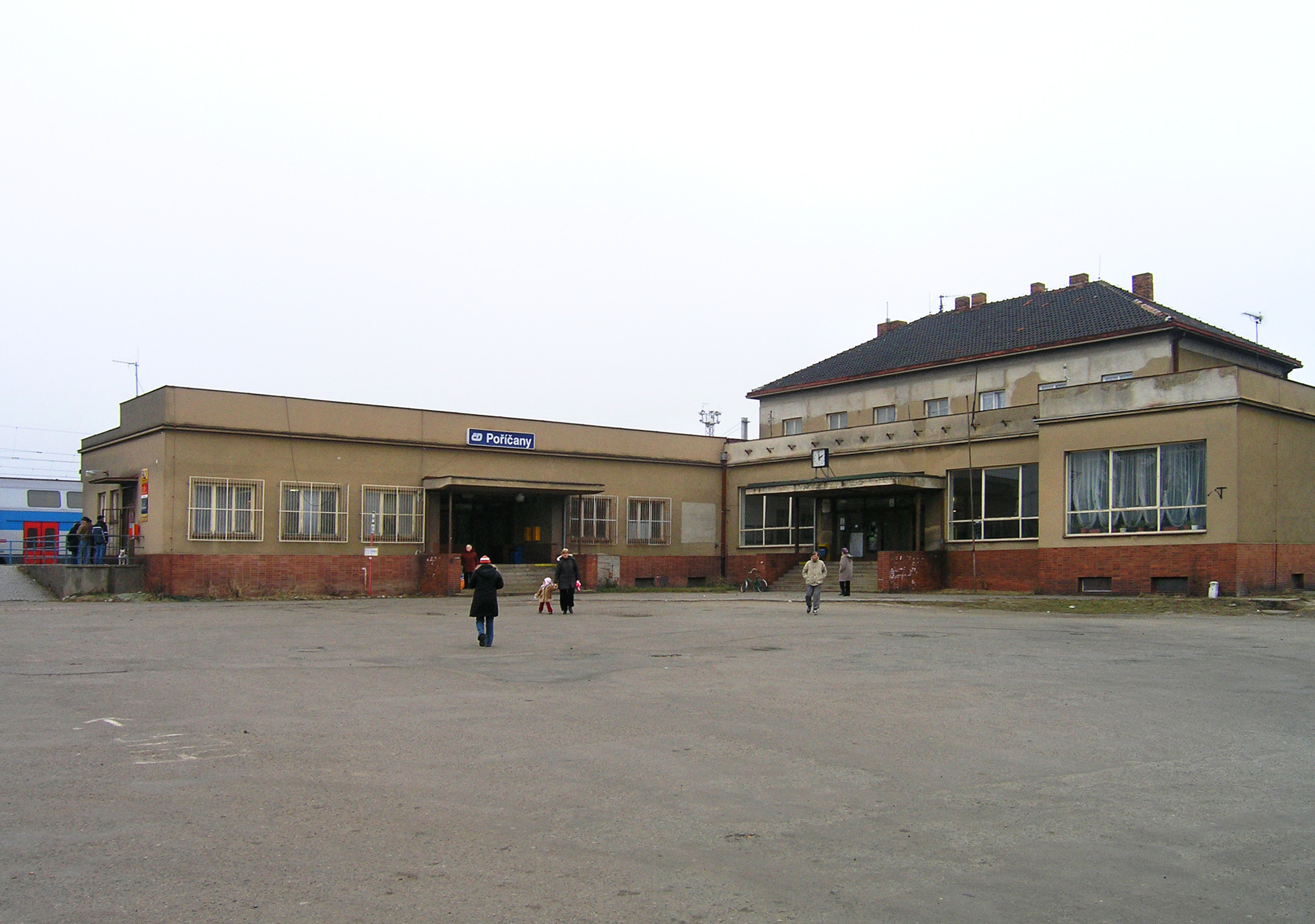 Railway station in Poříčany, Czech Republic